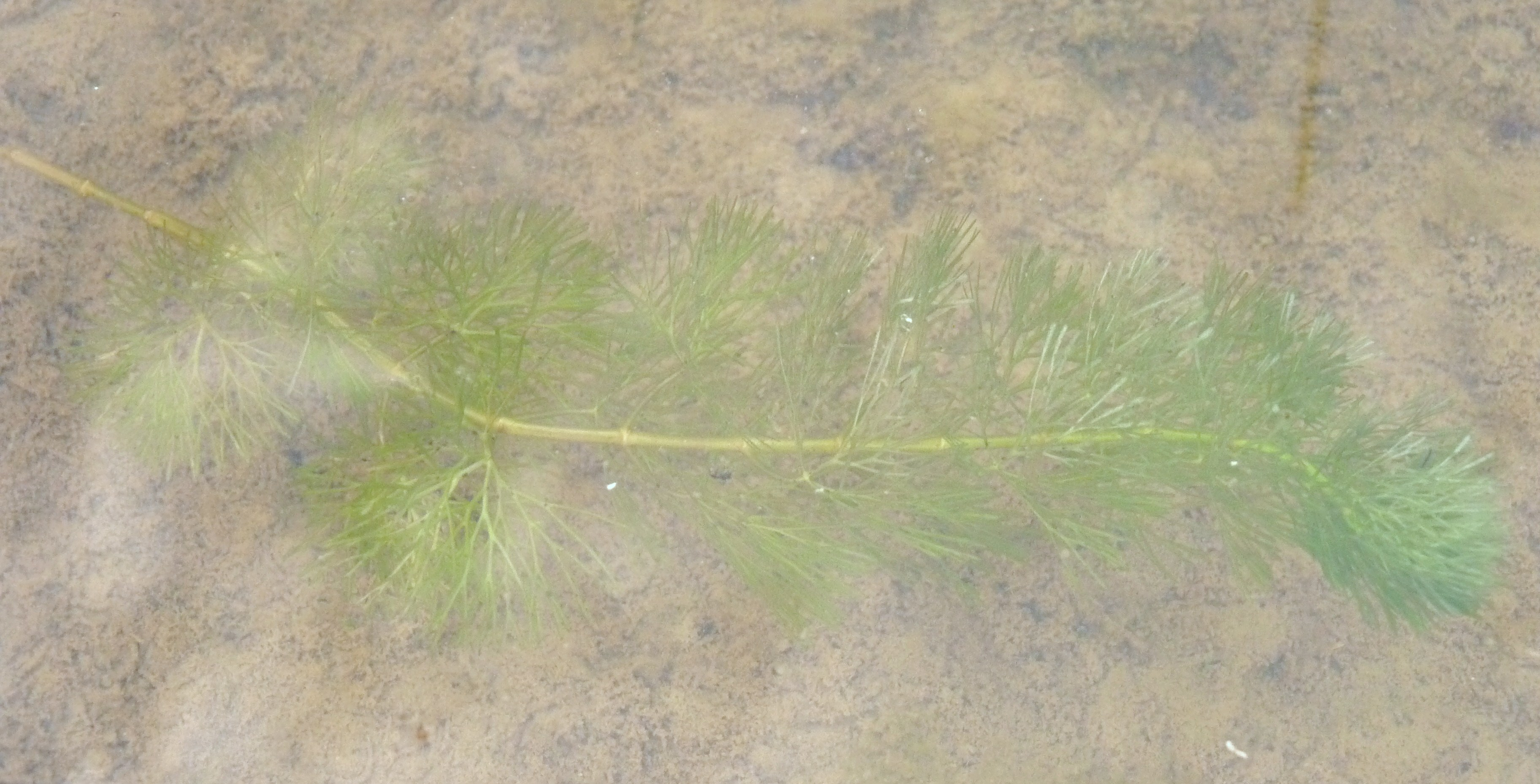 Cabomba caroliniana